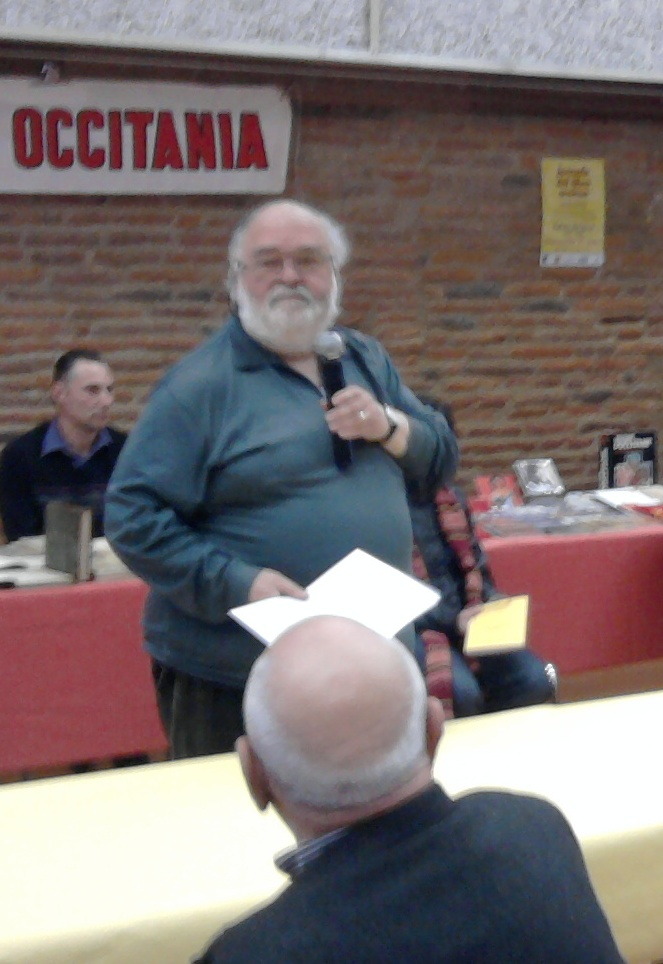 Micheu Chapduelh at the Jornada del Libre Occitan (Sant Orenç, March 27th 2011)